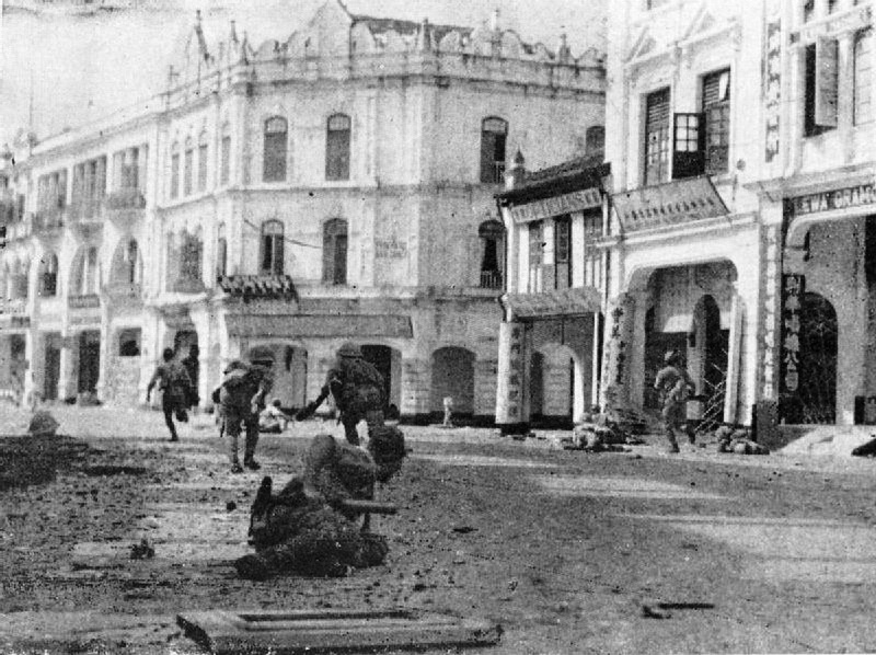 The Japanese Campaign and Victory 8 December 1941 - 15 February 1942: Japanese troops mopping up in Kuala Lumpur during their advance through Malaya.